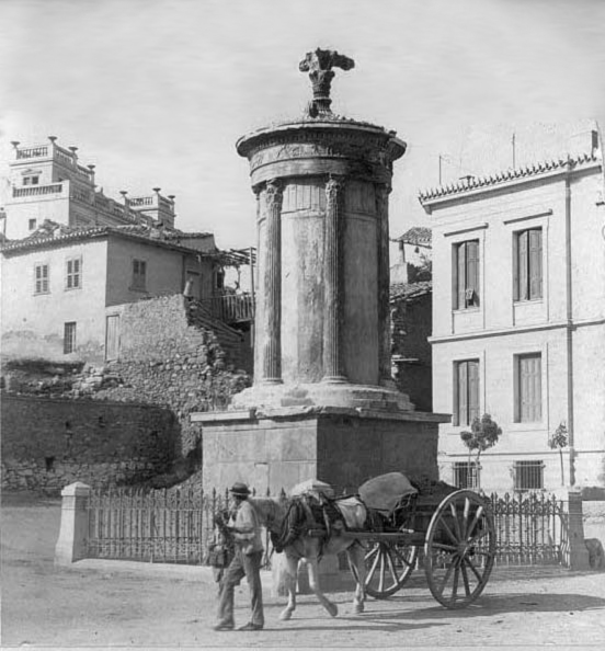 Lysikrates monument